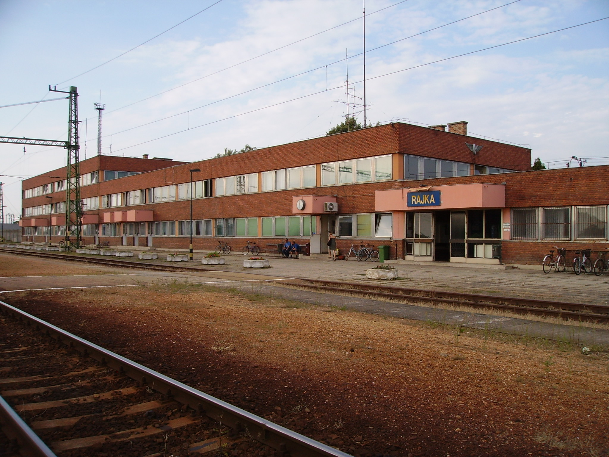 Railway station in Rajka, Northern Hungary.